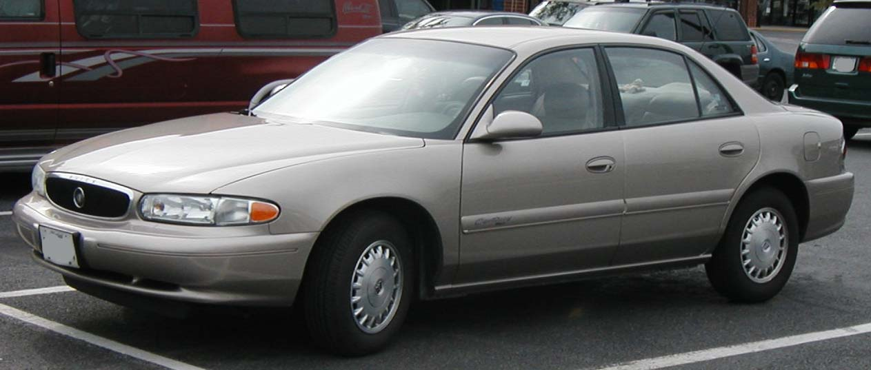 1997-2005 Buick Century photographed in USA.